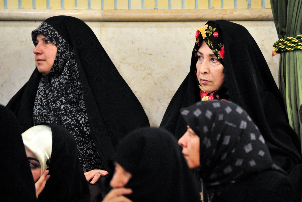 Wife of Mr. Musavi Ex-chief of Al-Zahra university Eid of Mab'as Musavi had a meet with families of arrested people More photos